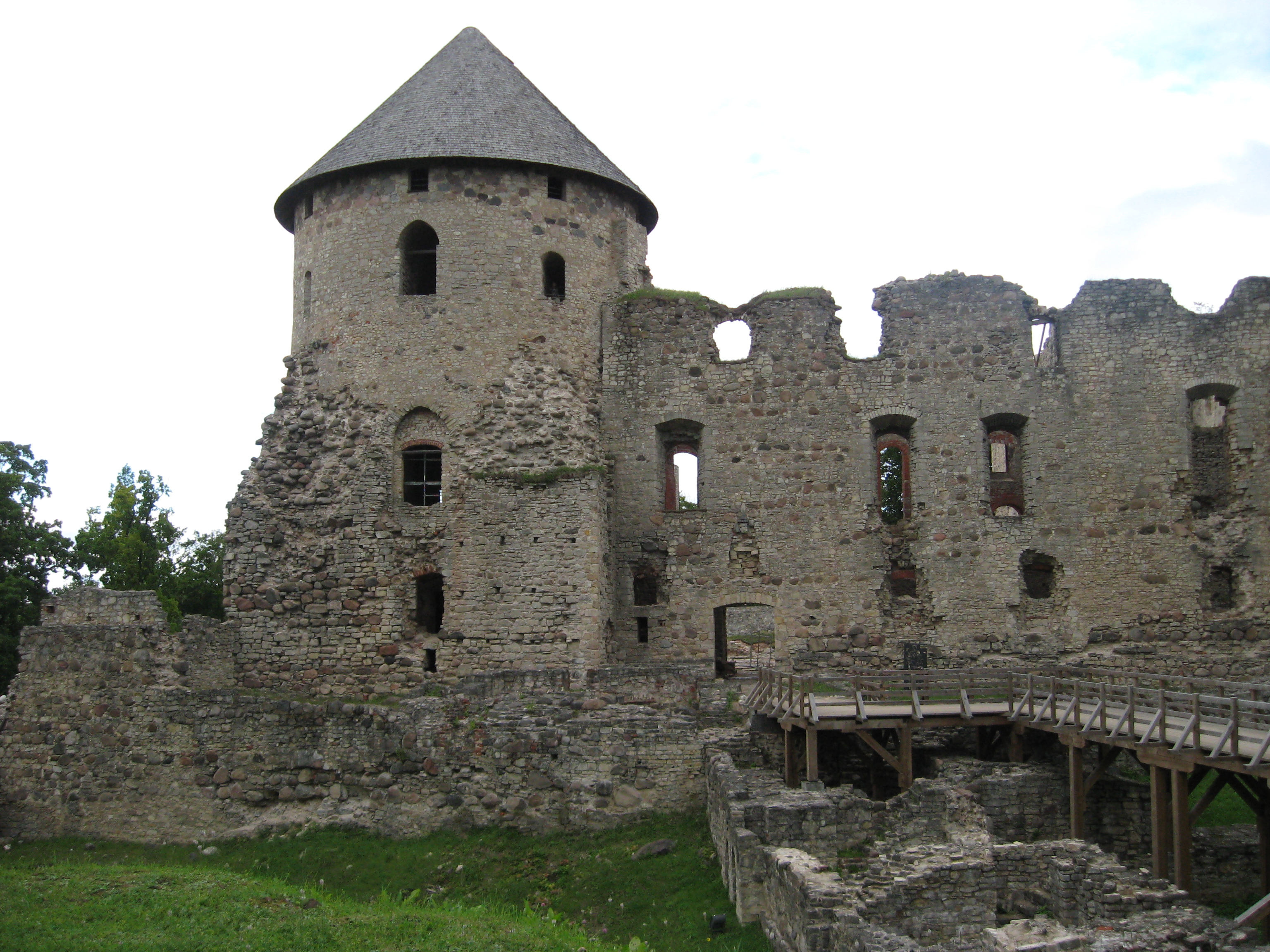 Castle of Cēsis.